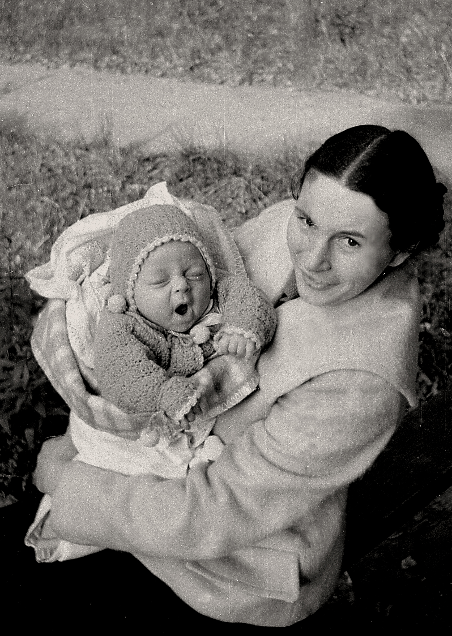 Children behaviour: Tiredness